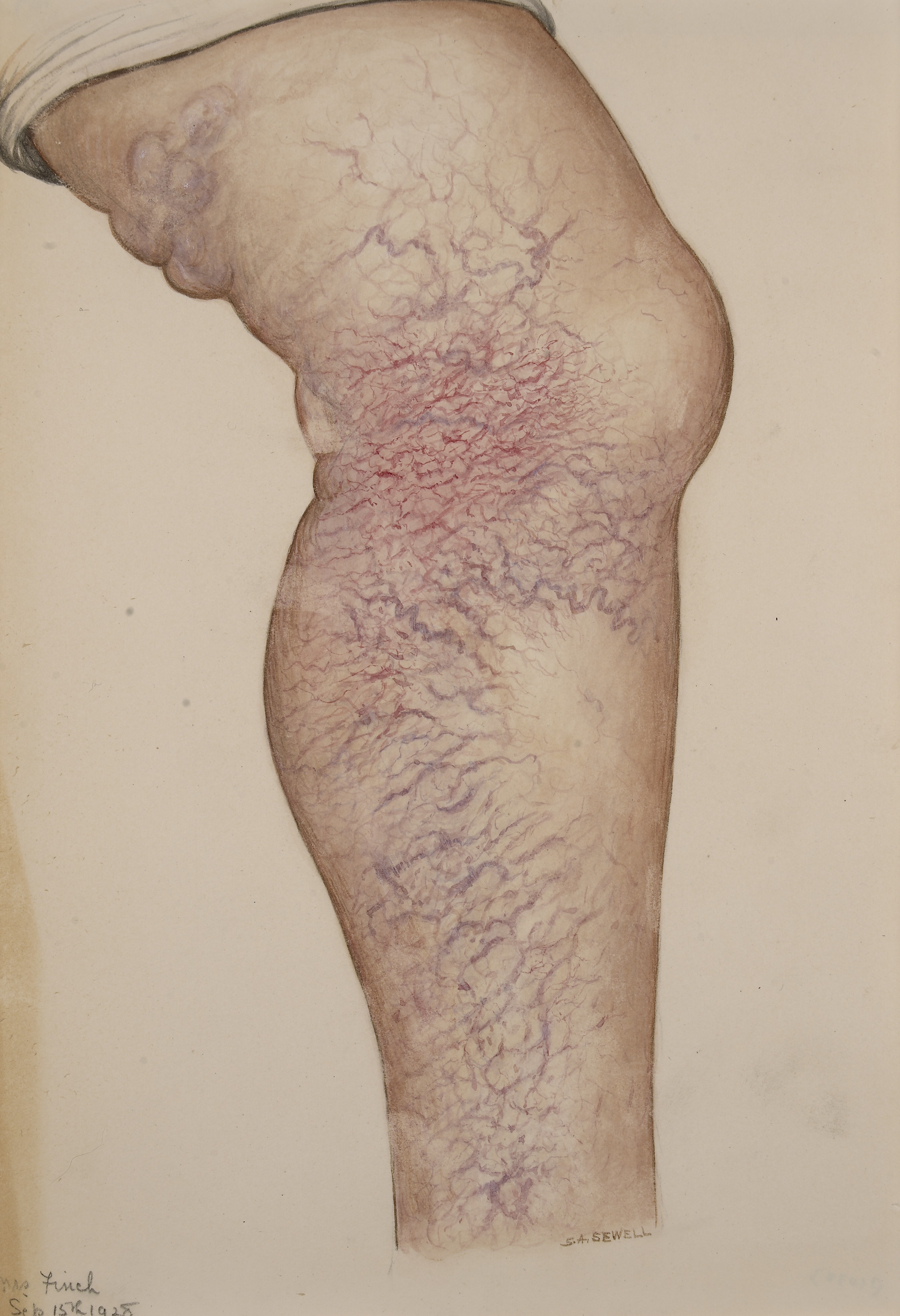 Watercolour drawing of the leg of a female patient affected with extensive varicose veins. Medical Photographic Library Keywords: Sewell, S A